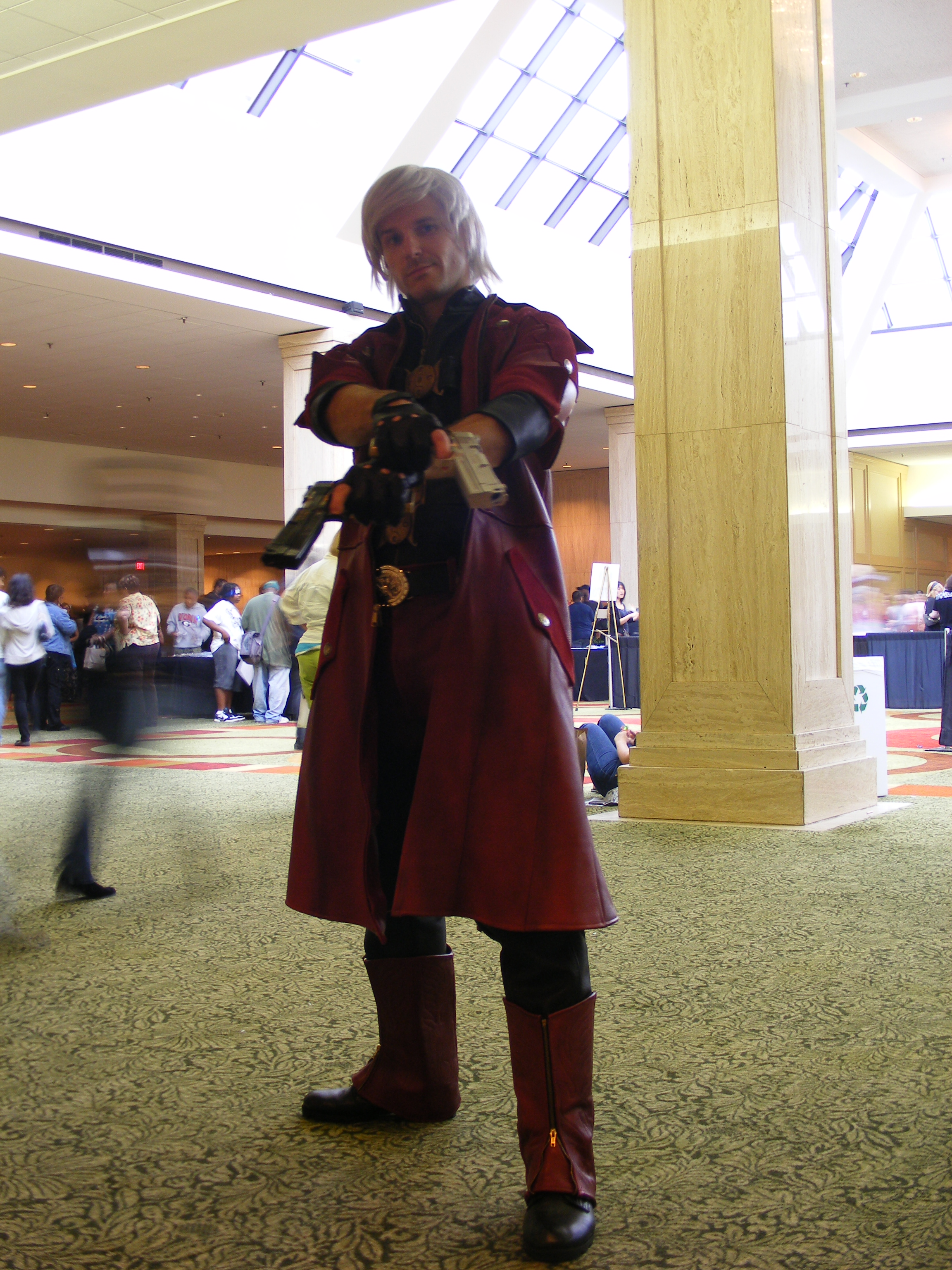 Cosplay - AWA15 - Dante